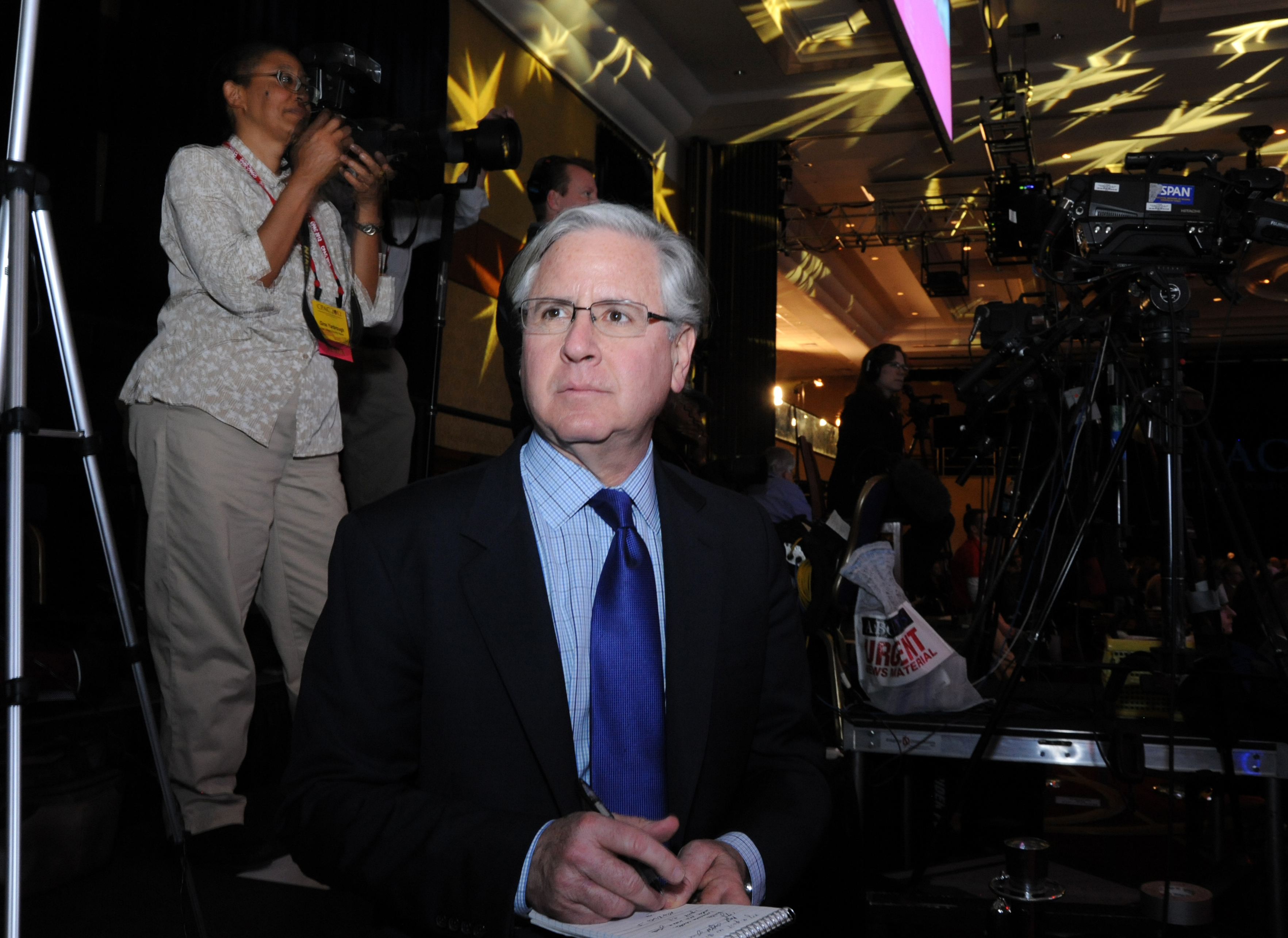 Howard Fineman on the campaign trail in 2012 at the CPAC convention. As the author of this photo, I release it under Attribution-ShareAlike Creative Commons.